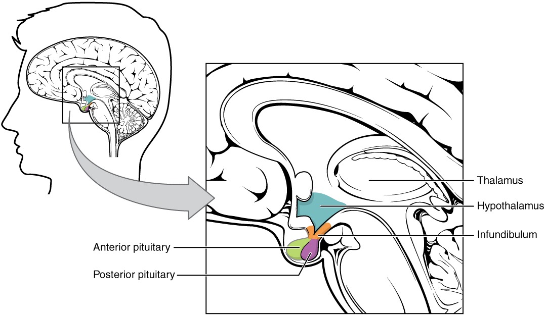 Illustration from Anatomy & Physiology, Connexions Web site. Jun 19, 2013.